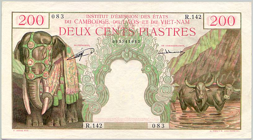 200 French Indochina piastres 1954